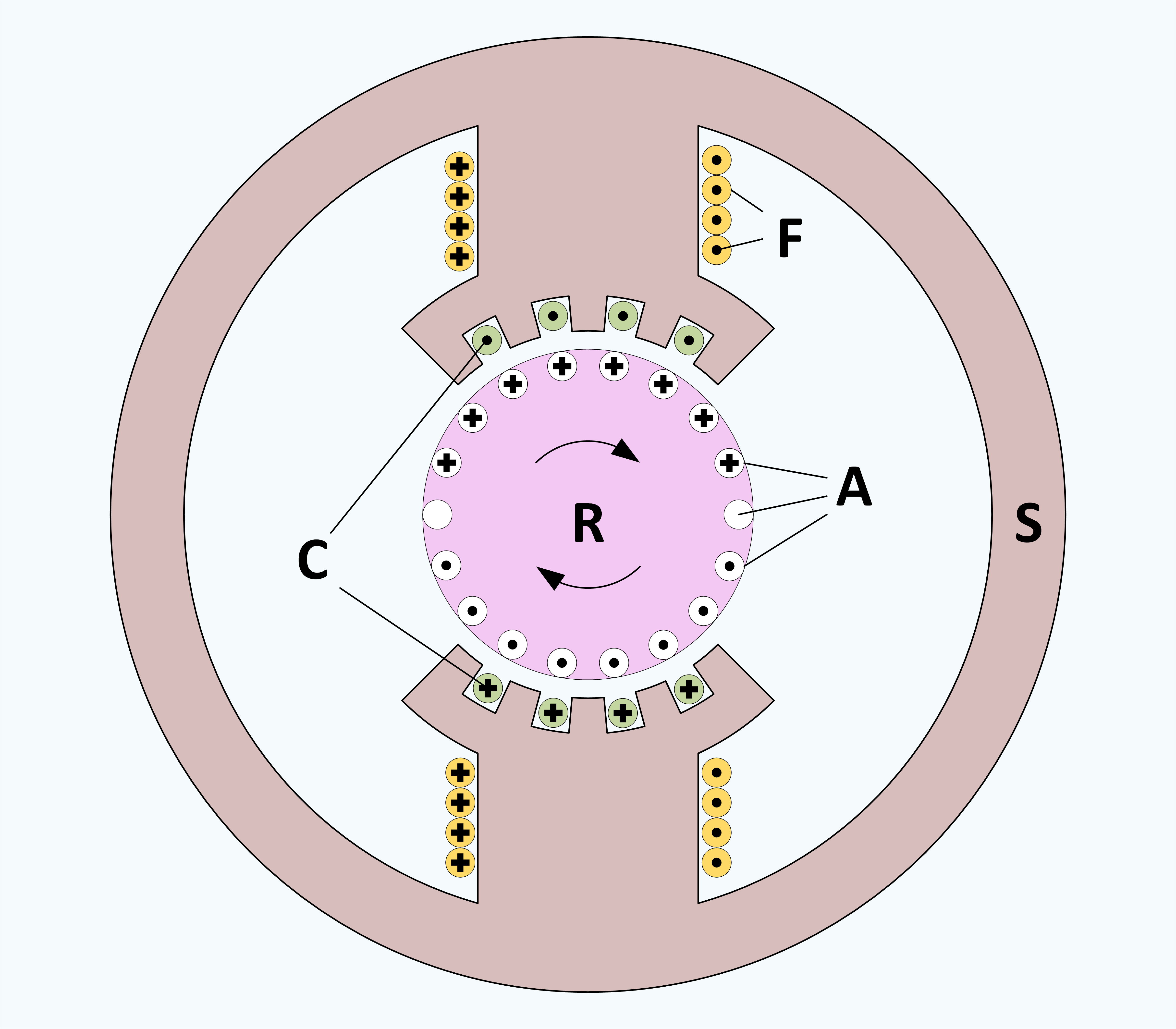 Cross section of DC motor with compensation windings. A = armature windings, C = compensation windings, F = field windings, R = rotor (armature), S = stator (field).